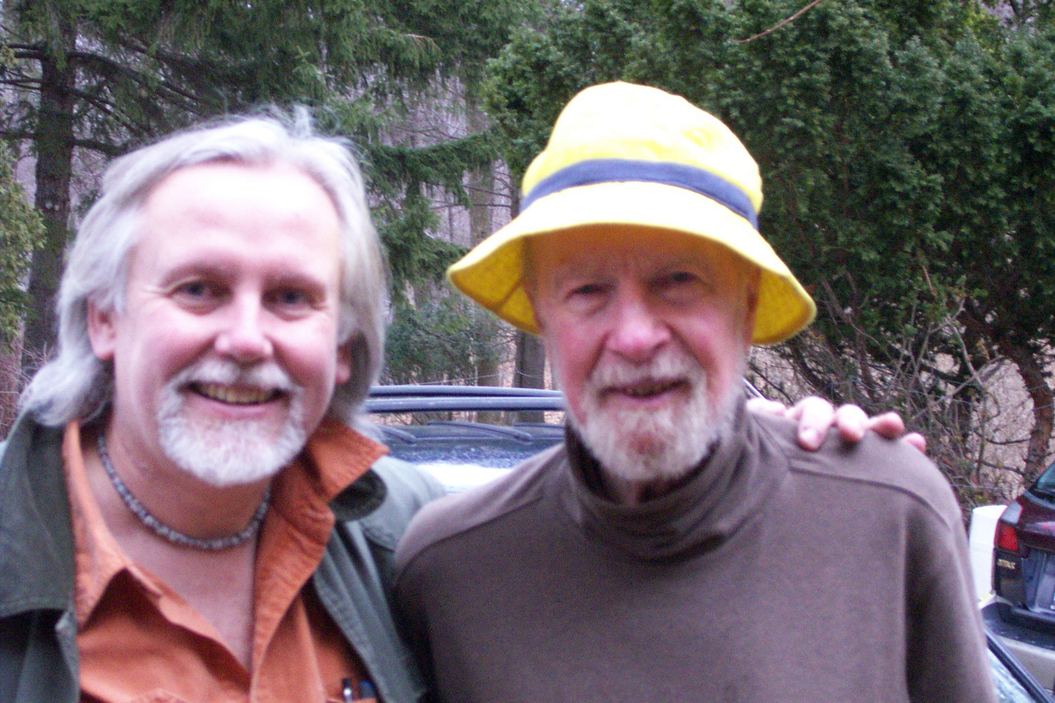 Pete Seeger (right), nearly 89, with his longtime friend the writer/musician Ed Renehan on March 7, 2008.